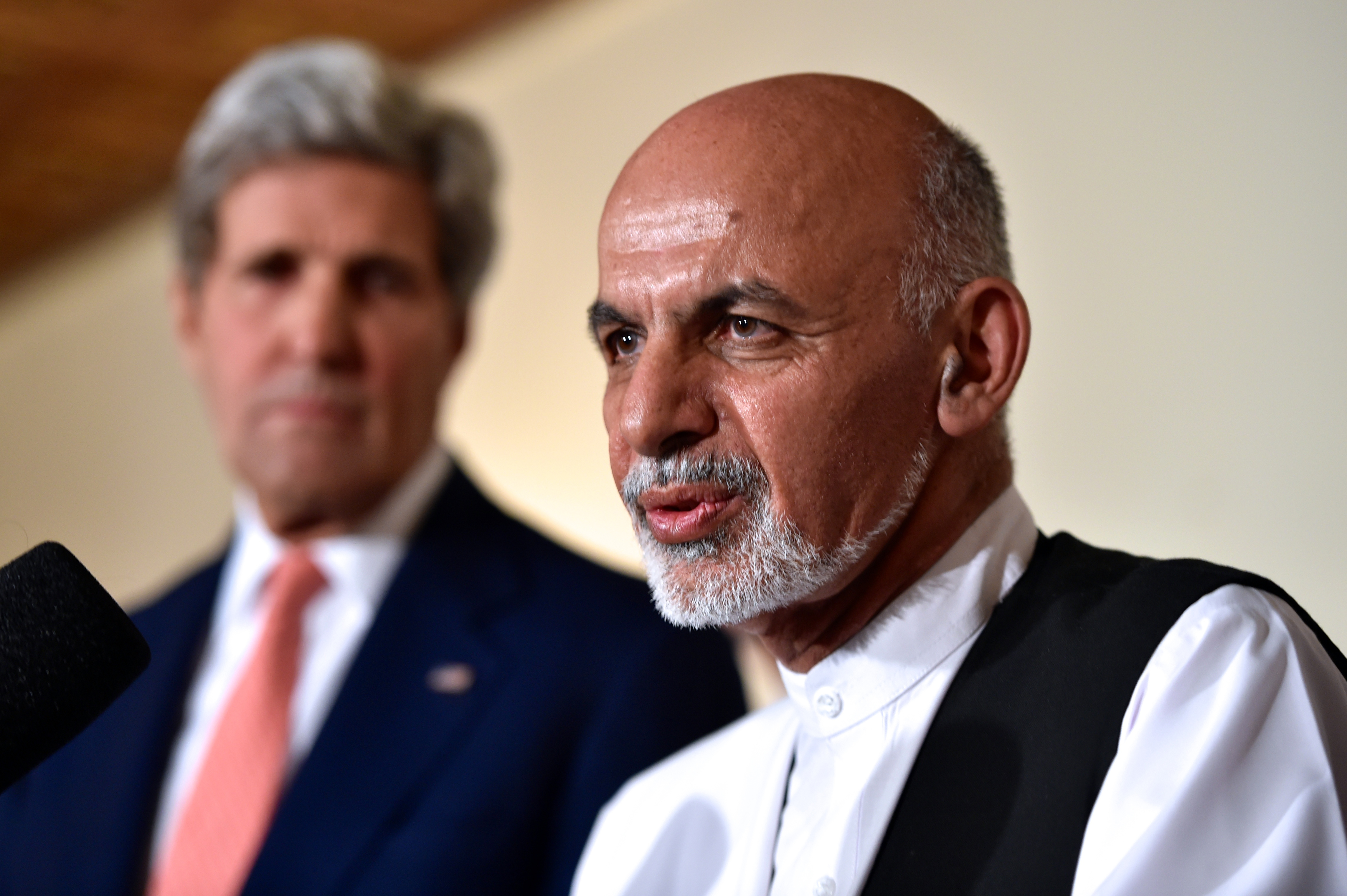 U.S. Secretary of State John Kerry listens as Afghan presidential candidate Ashraf Ghani addresses reporters at the United Nations Mission Headquarters in Kabul, Afghanistan on July 12, 2014, about the details of an agreement on a technical and political plan the Secretary helped broker to resolve the disputed outcome of the election between Ghani and rival candidate Abdullah Abdullah.